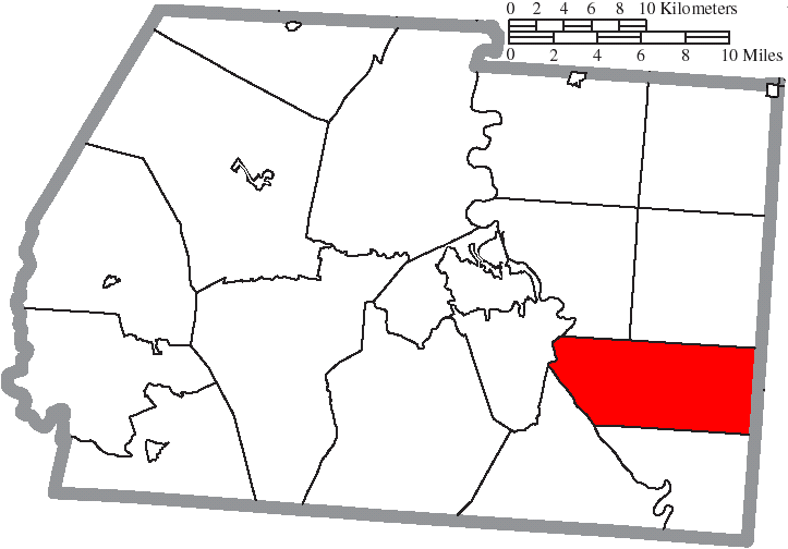 Map of the municipal and township boundaries of Ross County, Ohio, United States, as of the 2000 census, with the location of Liberty Township highlighted. Township borders are shown only in unincorporated areas in order to differentiate incorporated and unincorporated areas more clearly.